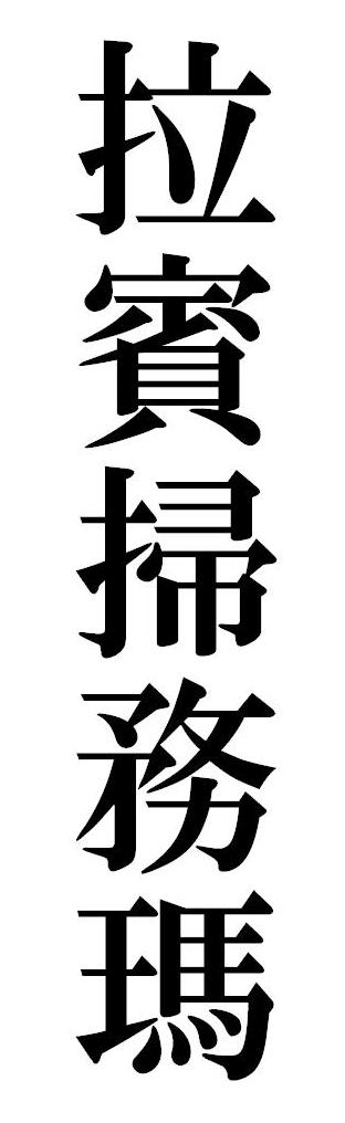 Ideograms for Rabban Bar Sauma